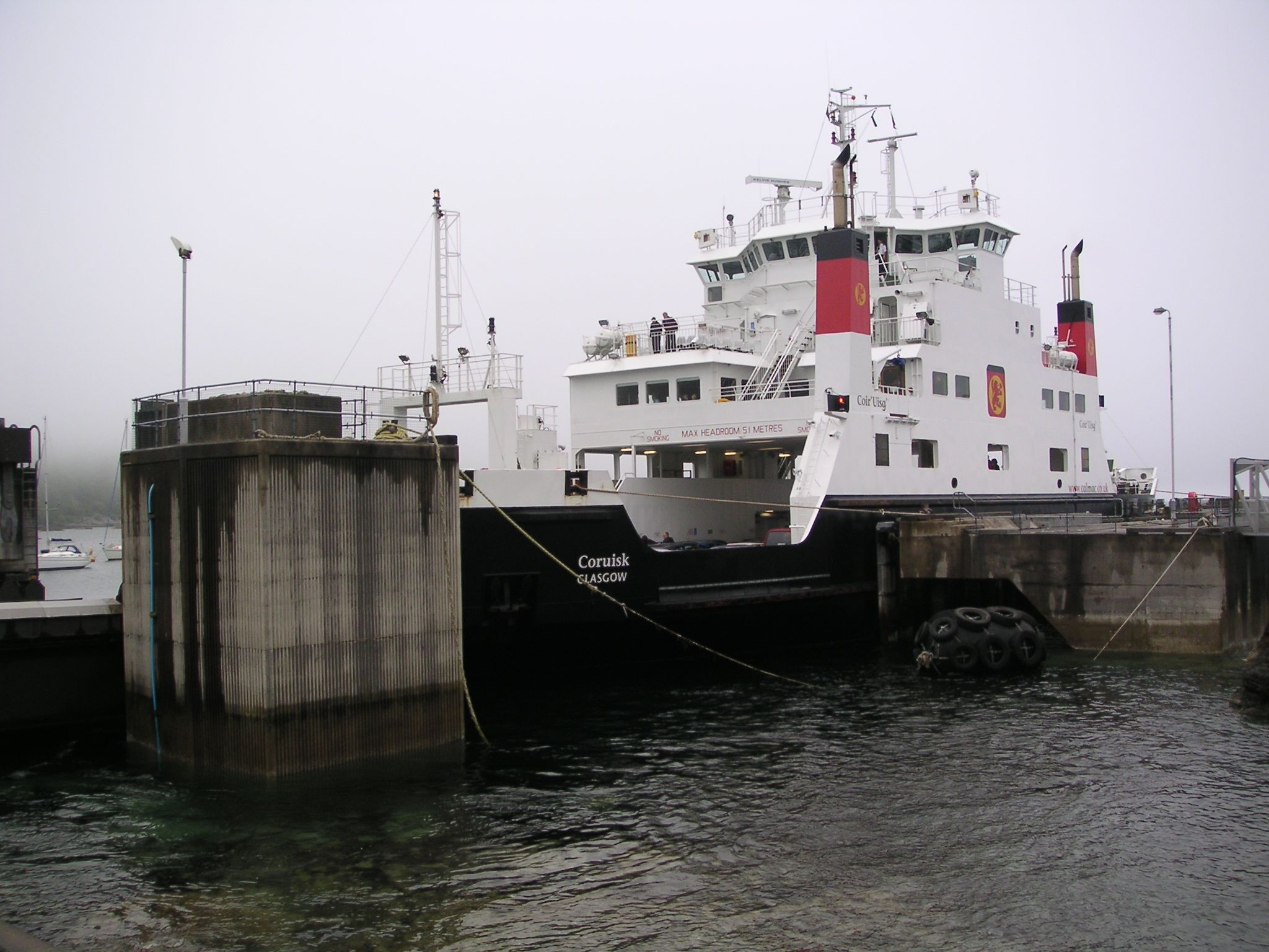 CalMac ferry MV Coruisk at Armadale, Skye, Scotland. IMO Number: 9274836 MMSI Number: 235008929 Callsign: VQKF2